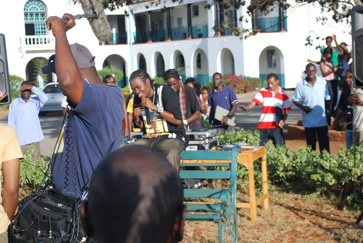 orange hellotune ad shooting